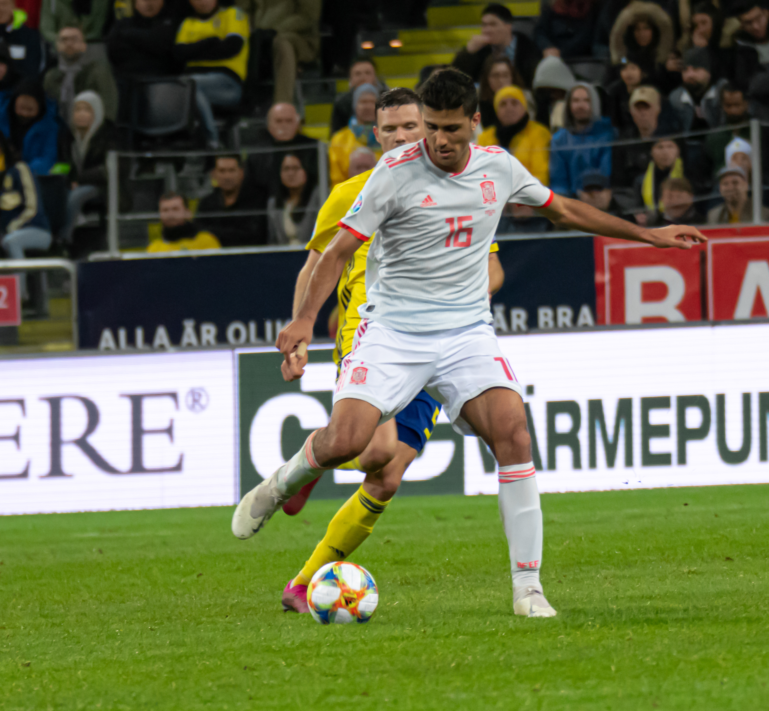 UEFA_EURO_qualifiers_Sweden_vs_Spain_20191015